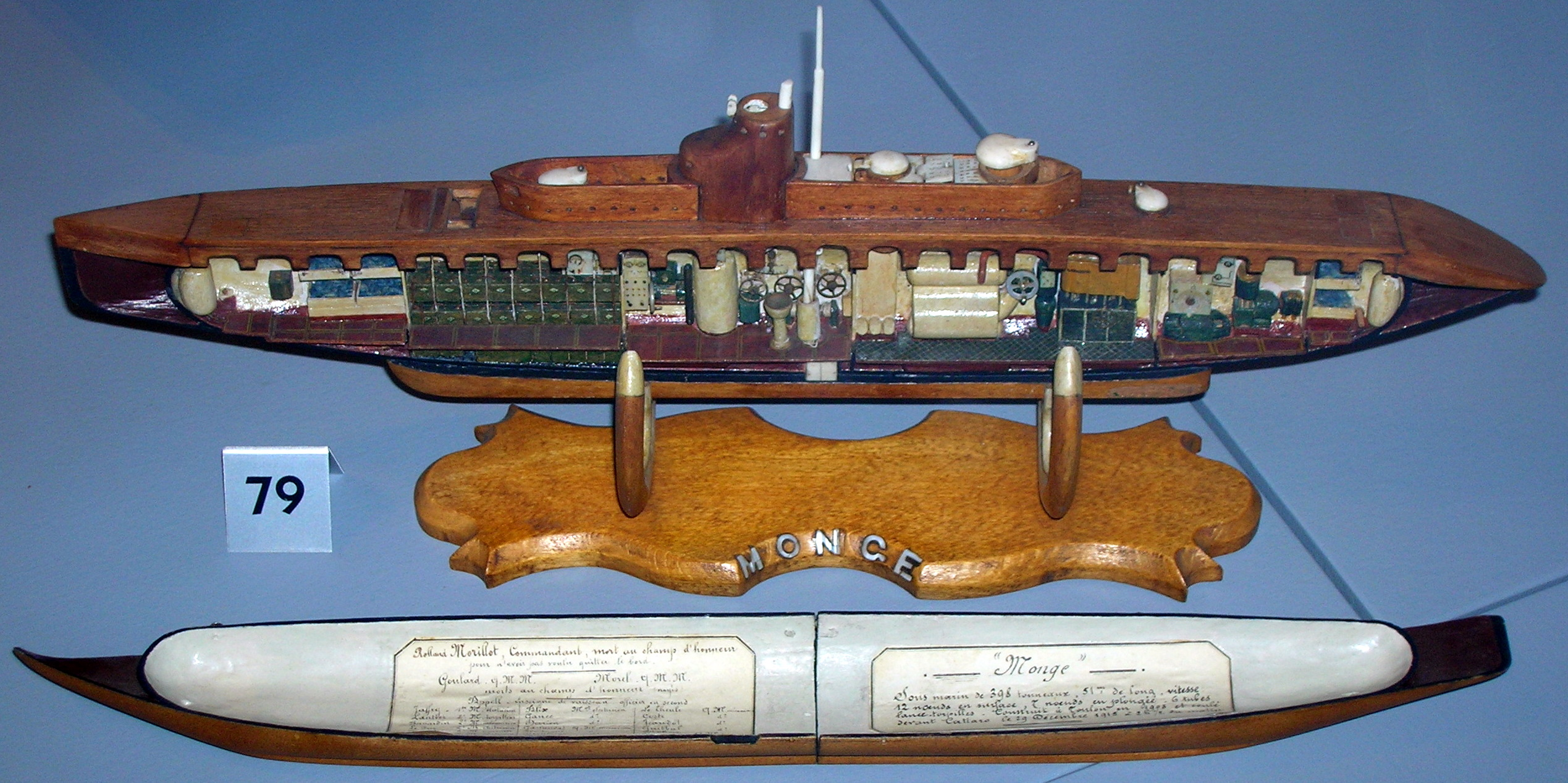 Model of the Monge (Q57) (1908), an early submarine of the Pluviose class.